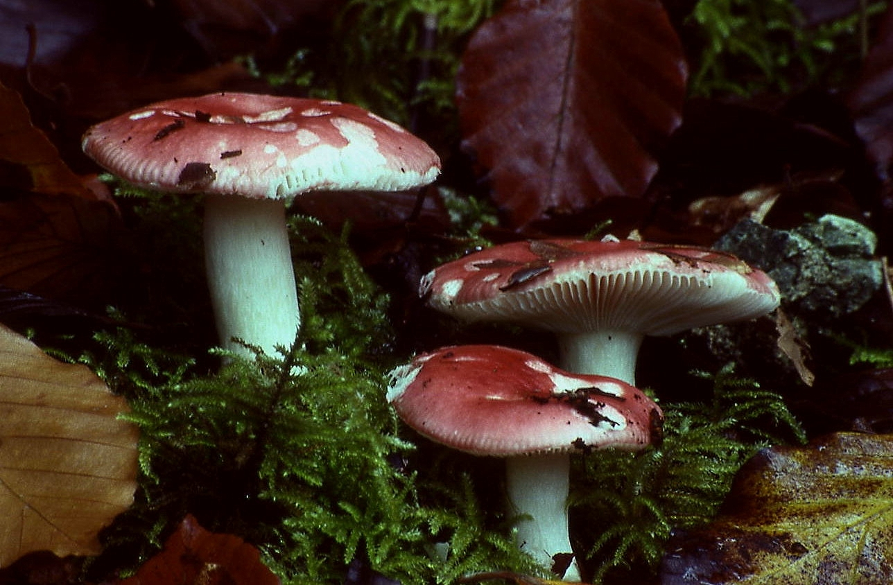 The source of this image is the photographer Frank Gardiner aka Zonda Grattus, who is the sole owner and copyright holder of this photograph and agrees to publish it under the Own Work, Creative Commons Attribution 3.0 License.